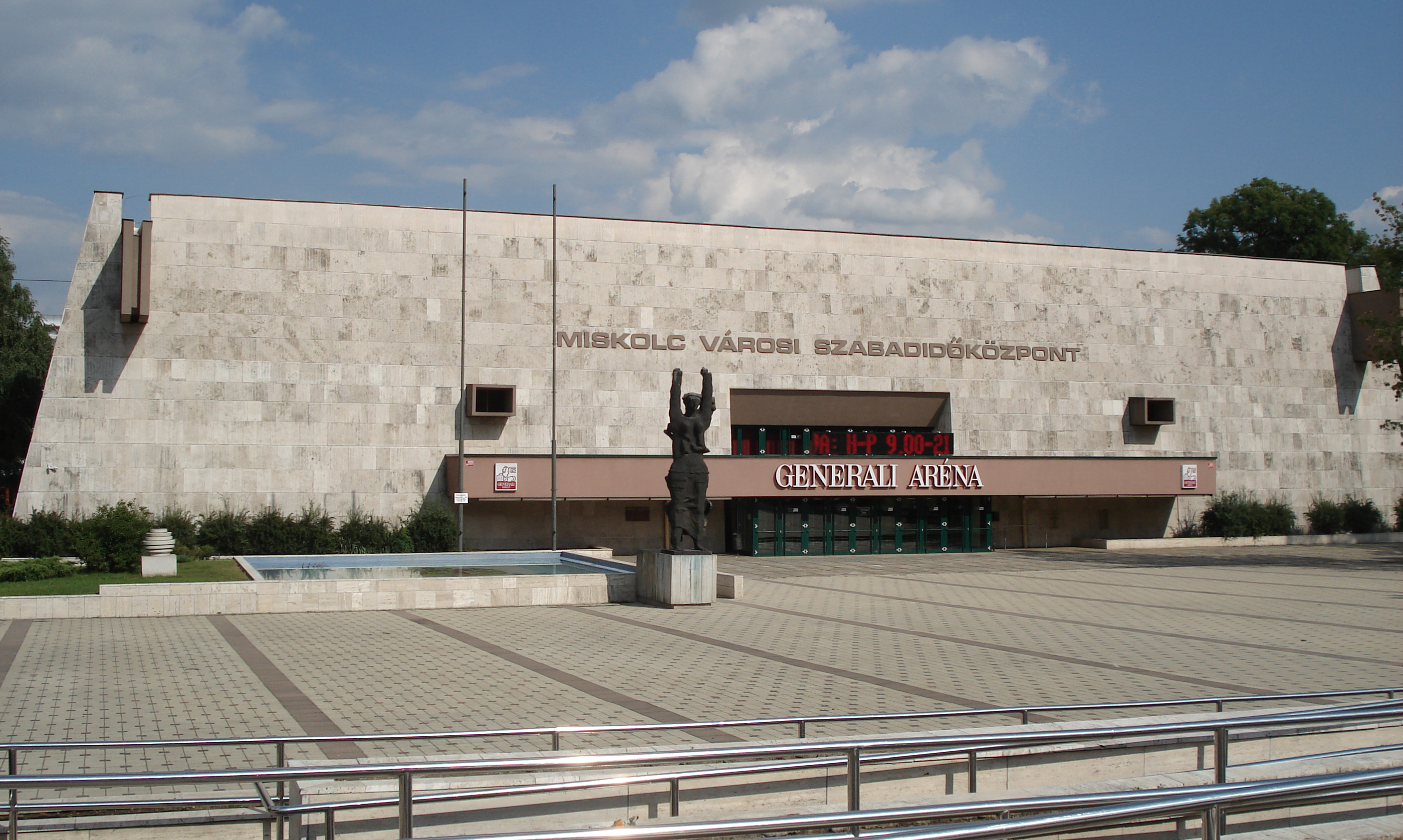 Sport-hall, Miskolc, Hungary (2011)